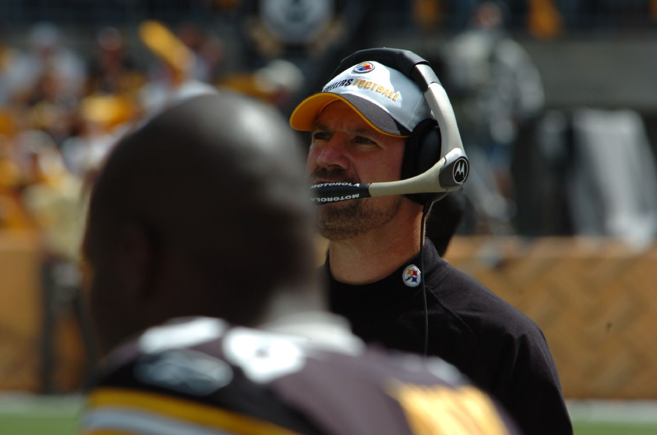 Bill Cowher as Pittsburgh Steelers coach in 2006 against the Bengals.